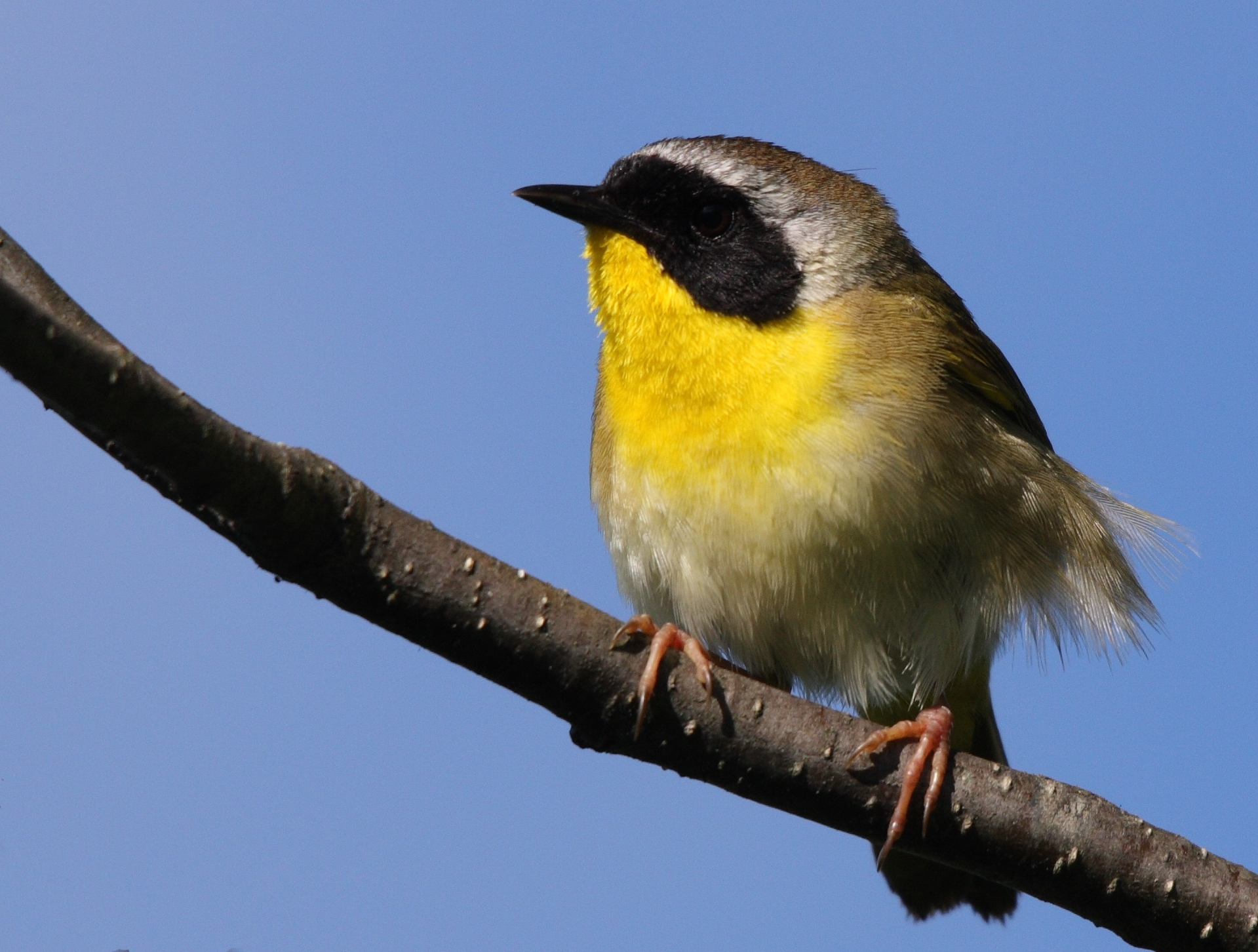 Common Yellowthroat, Réserve naturelle des Marais-du-Nord, Quebec, Canada.